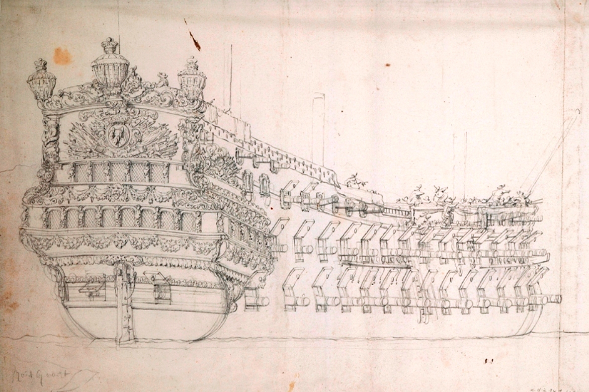 Presumed drawing of the French vessel Superbe in an English port at the start of the Holland War.